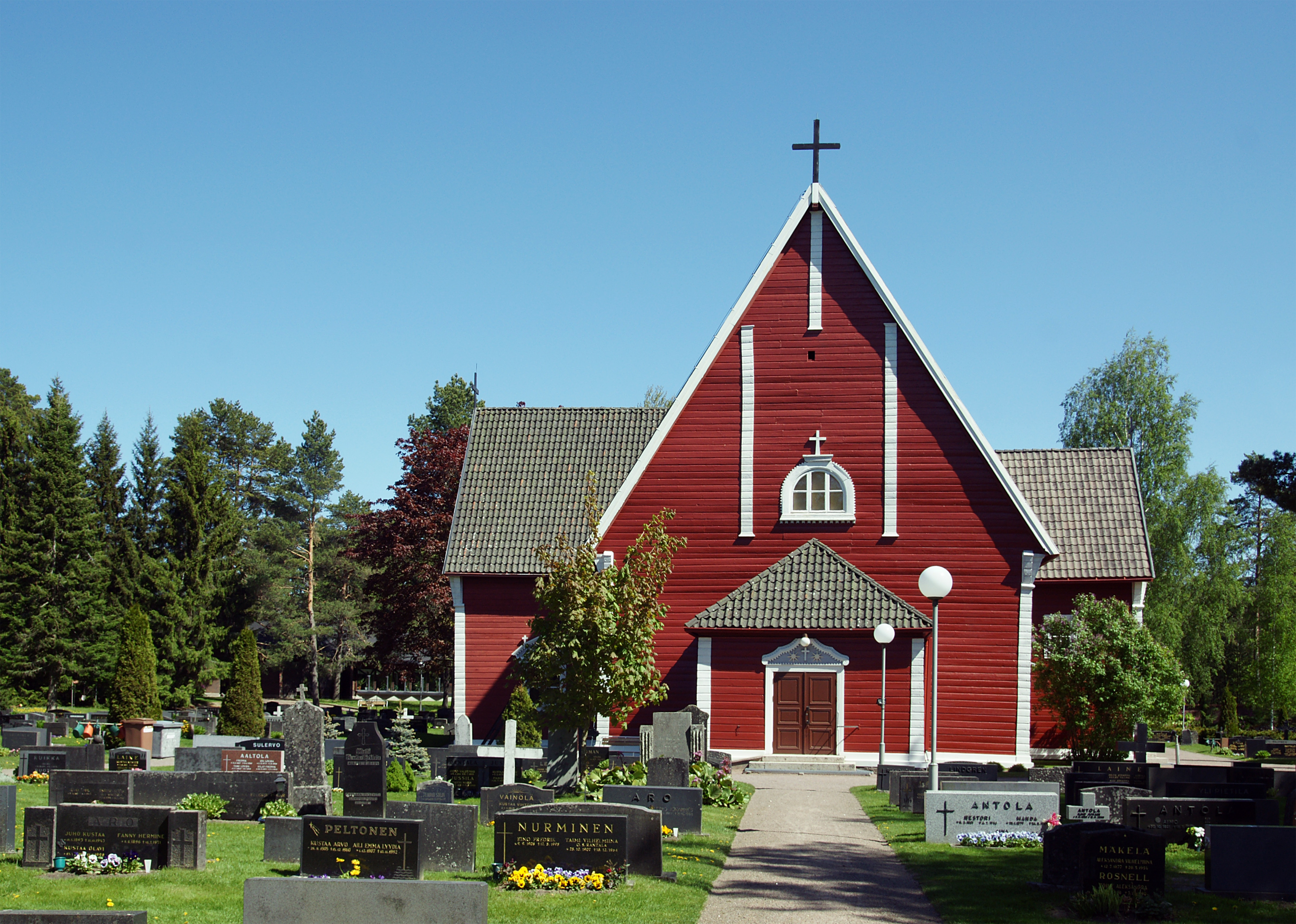 Lappi Church.